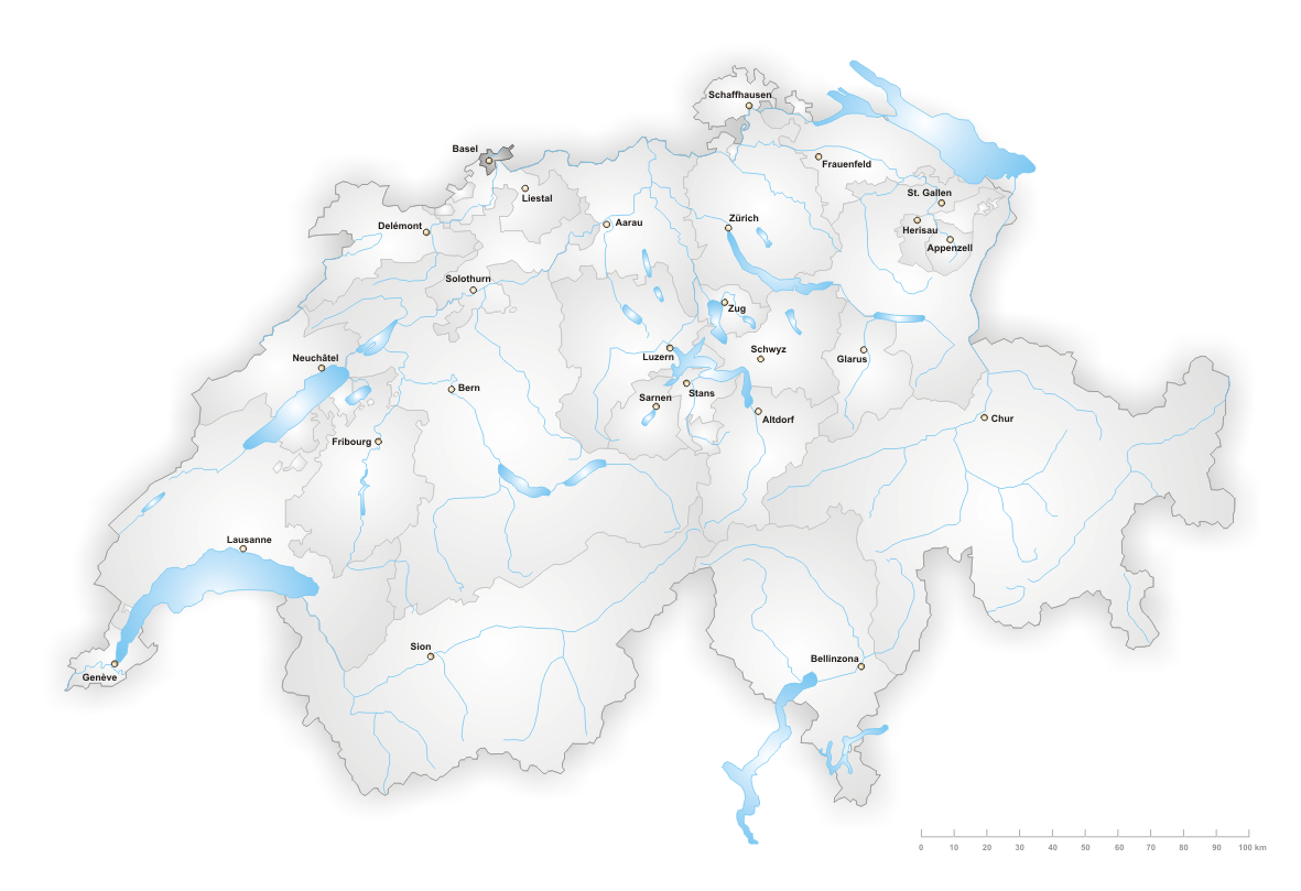 Kanton Basel-Stadt